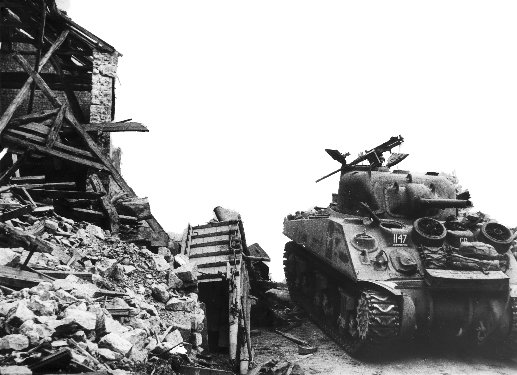 Ecouche battle, Normandy France